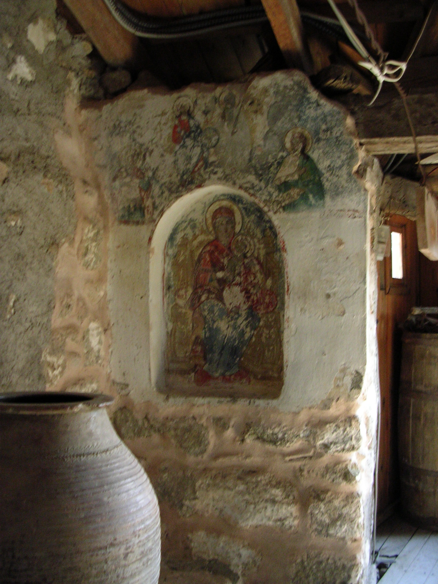 Fresco in Metheora Agia Triada